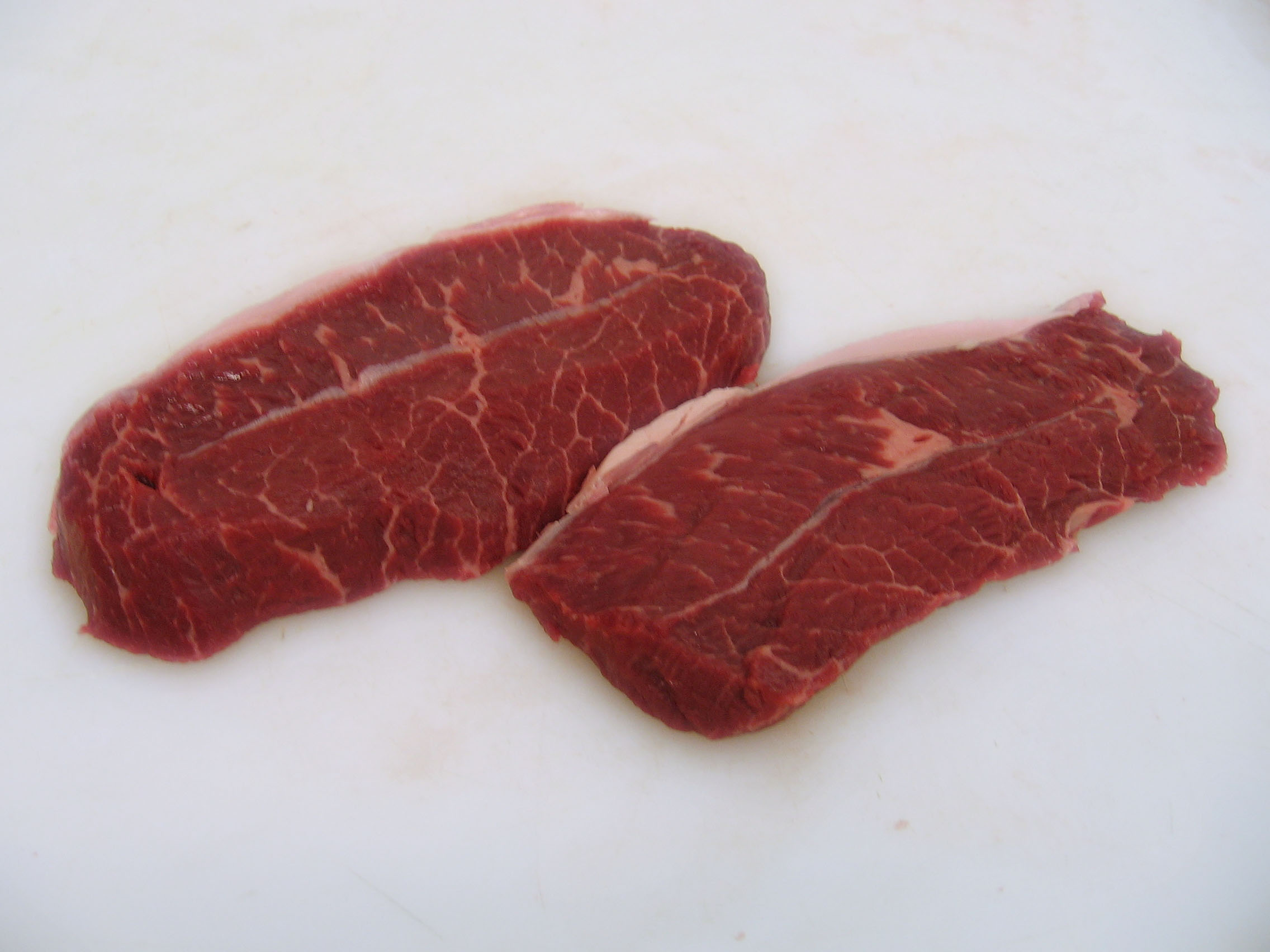 Photograph made by Jace Hentges (User:mywhitedevil) on 2006-08-24